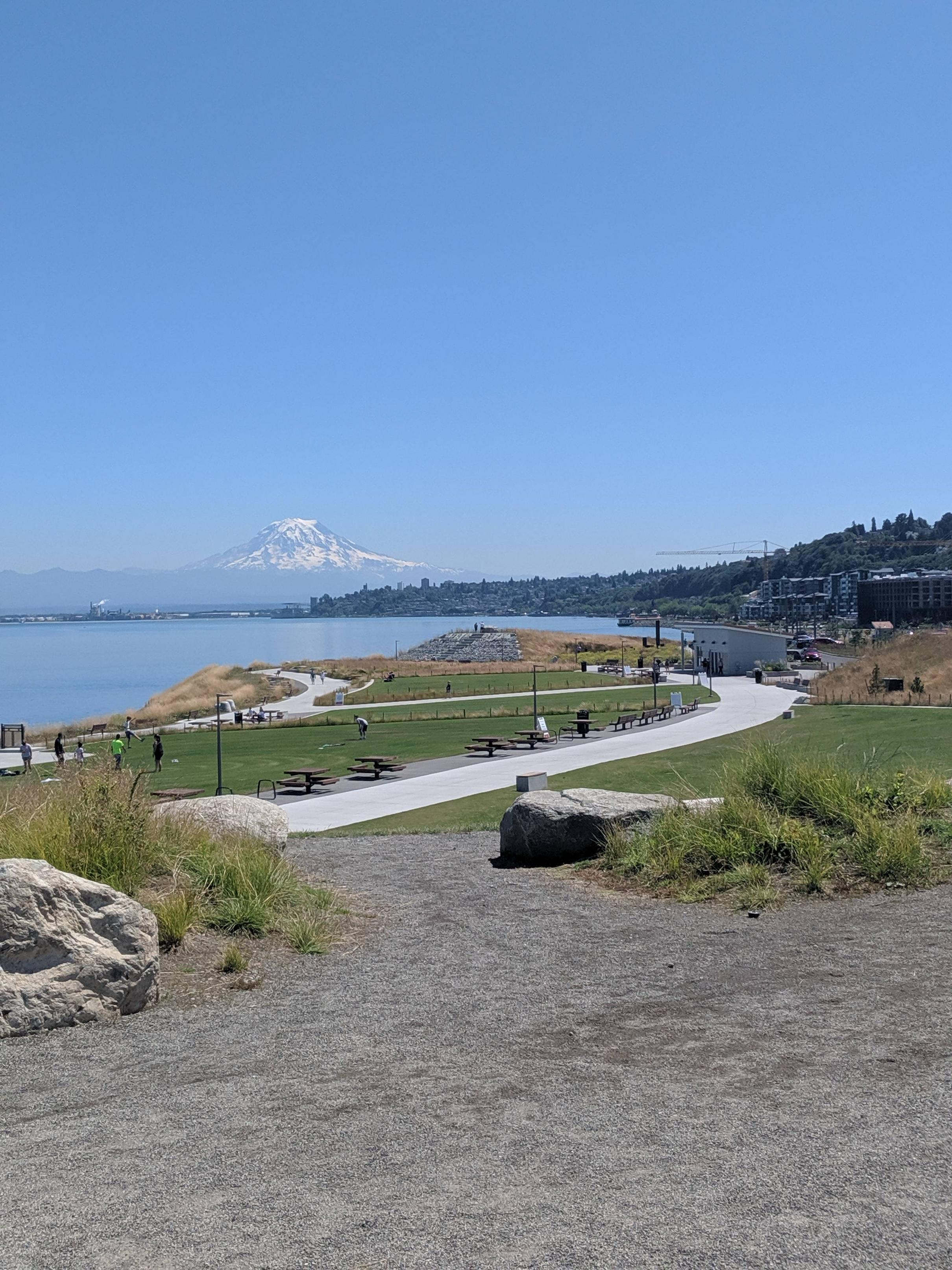 View of Dune Peninsula, with Point Ruston and Mount Rainier in the distance.